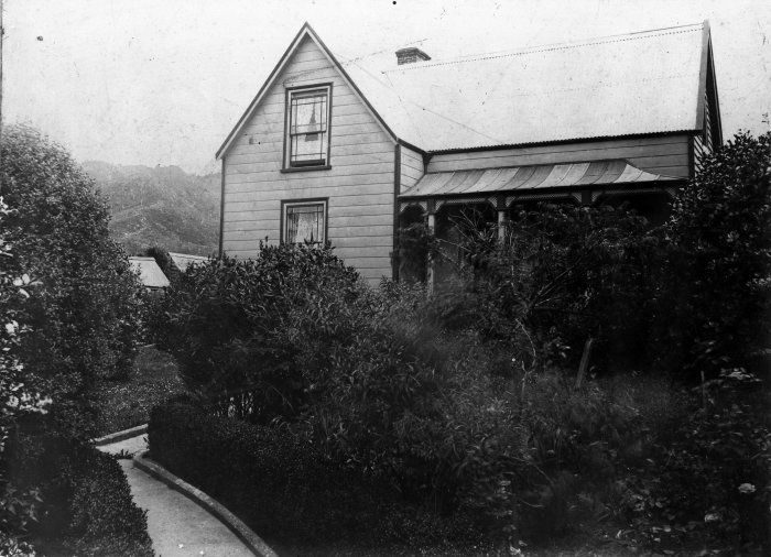 Chew Cottage before 1914. Reference Number: 1/2-031670-F